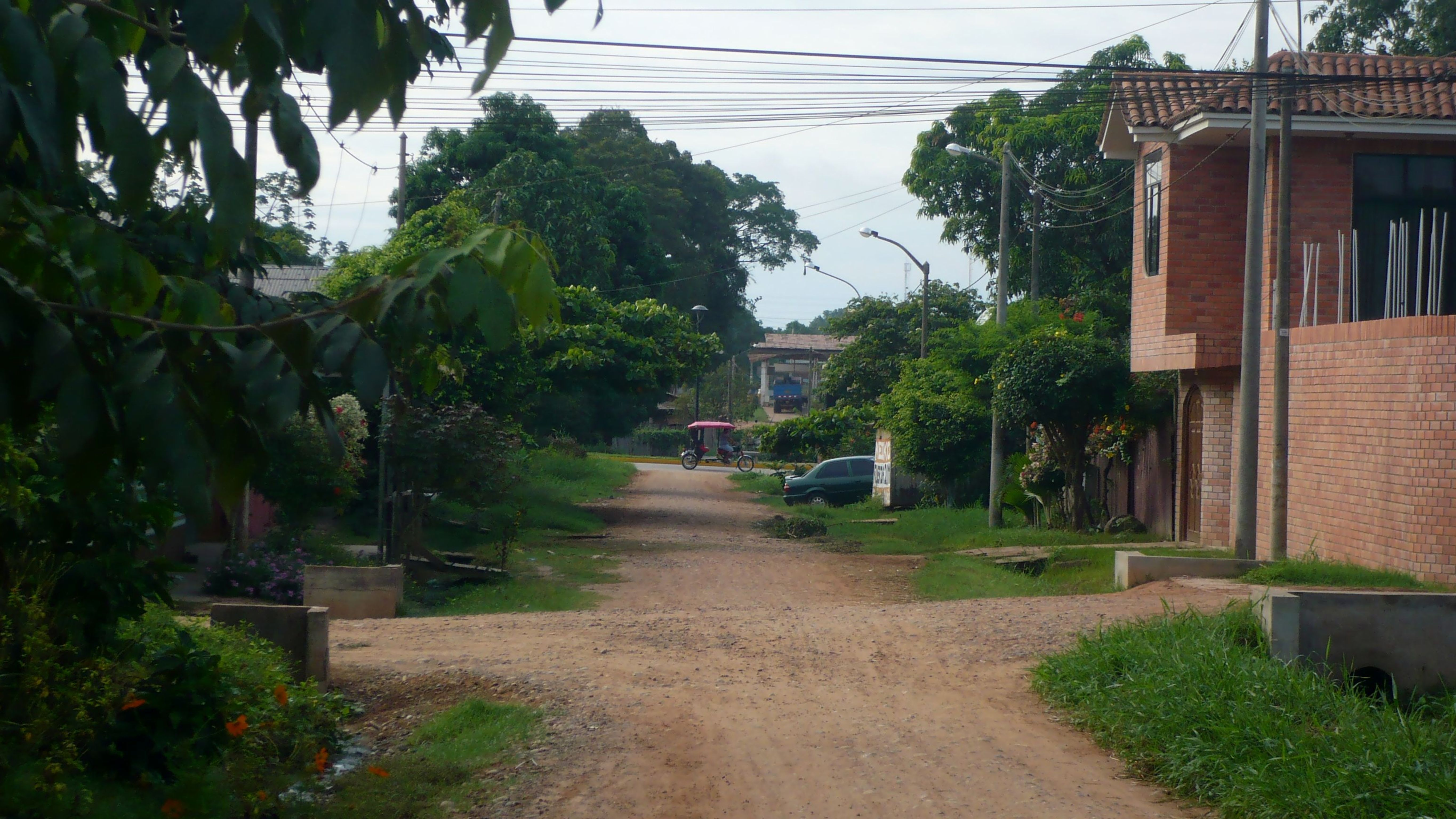 View from the right side of the Avenida Amazonas, since the block number 26.